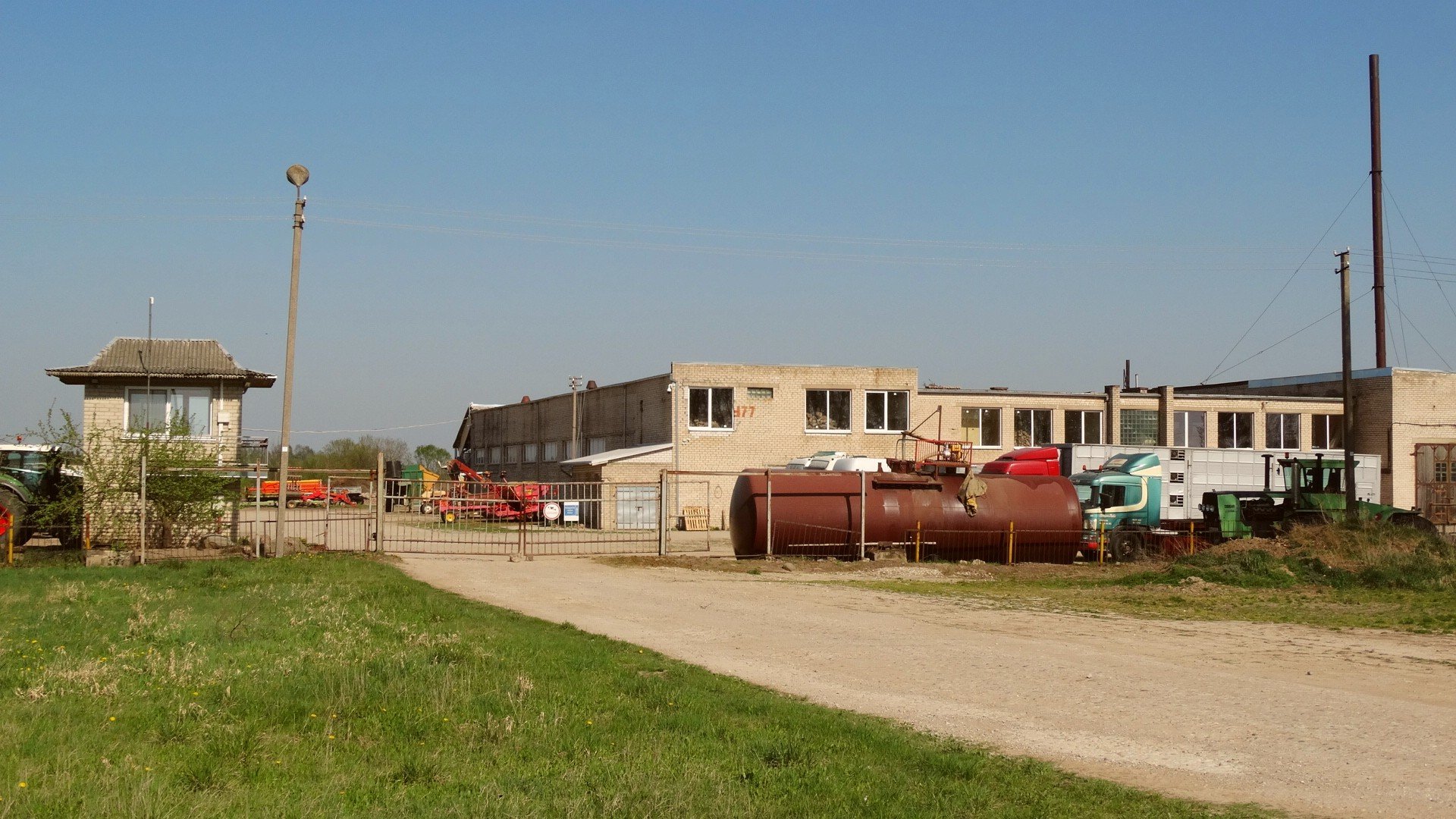 Pociūnėliai, Radviliškis District, Lithuania